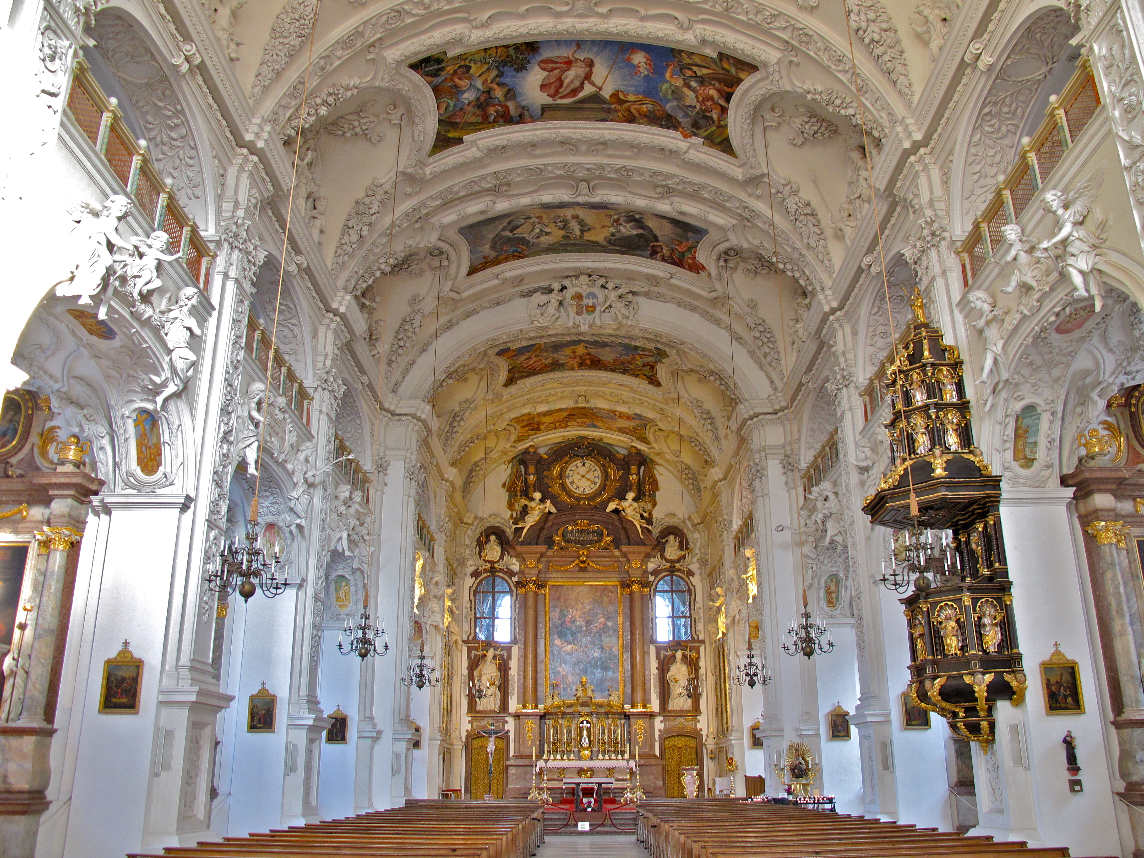 Inside of the parish church St. Benedikt (former minster of the Benediktbeuern Abbey) in Benediktbeuern, Upper Bavaria, Germany